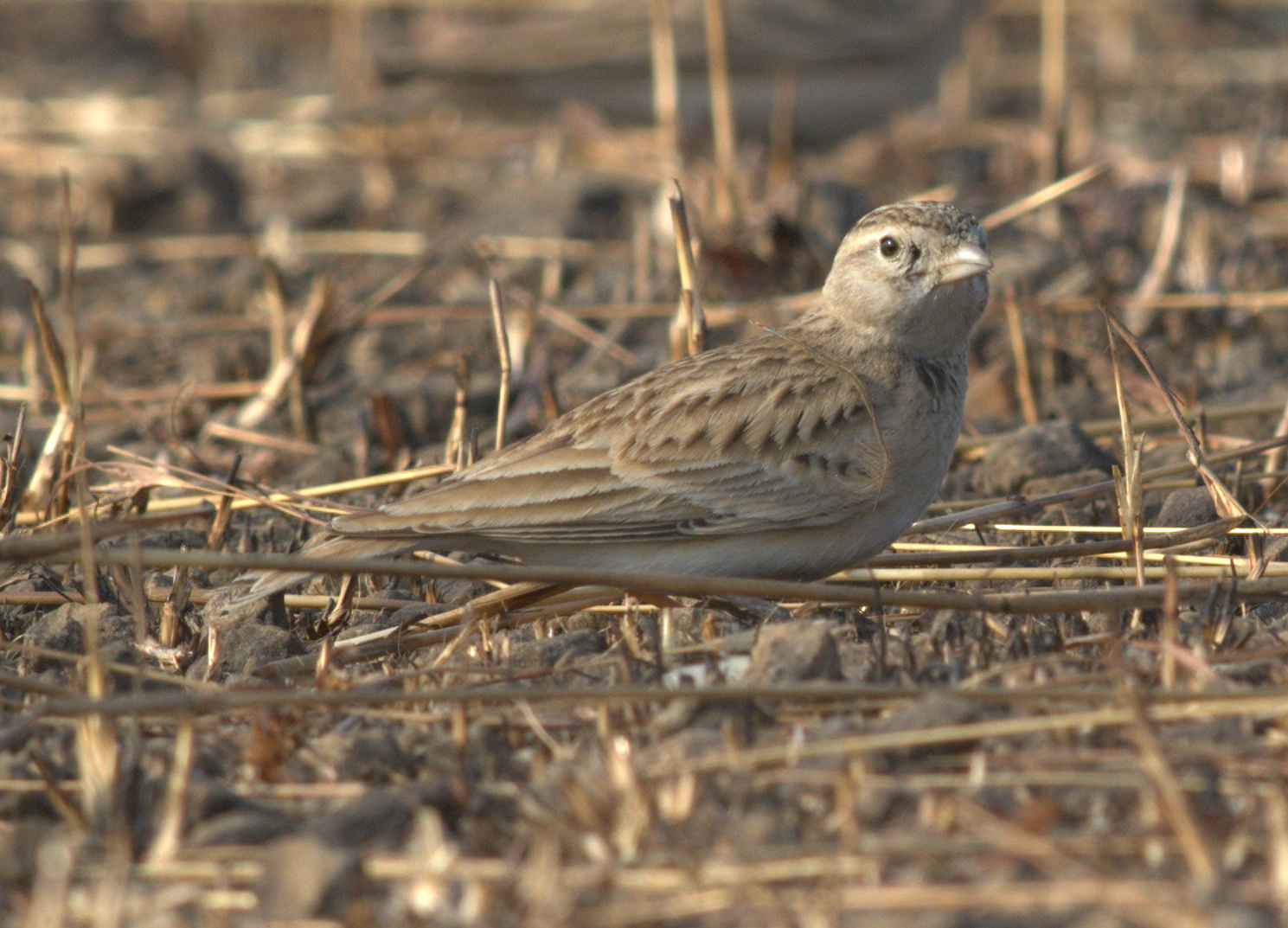 This bird was sighted in Dombivli,dist. Thane, Mumbai,Maharashtra.